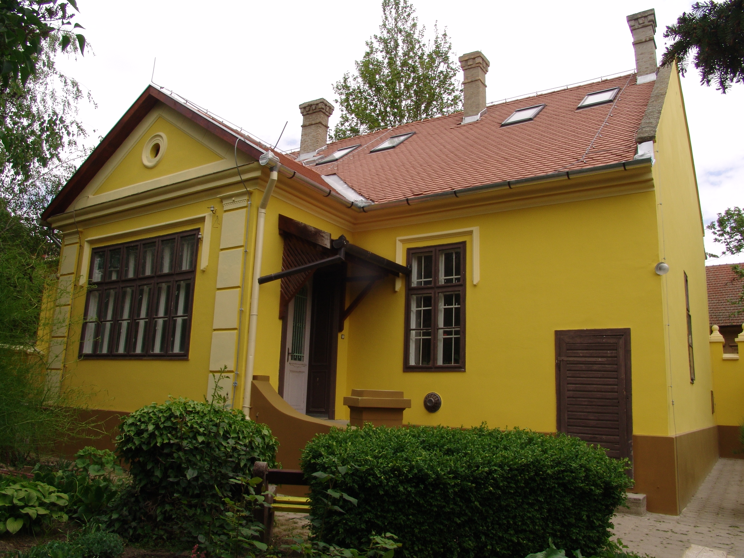 Public library in Novi Bečej - yard facade Српски (ћирилица): Narodna biblioteka u Novom Bečeju - dvorišna fasada